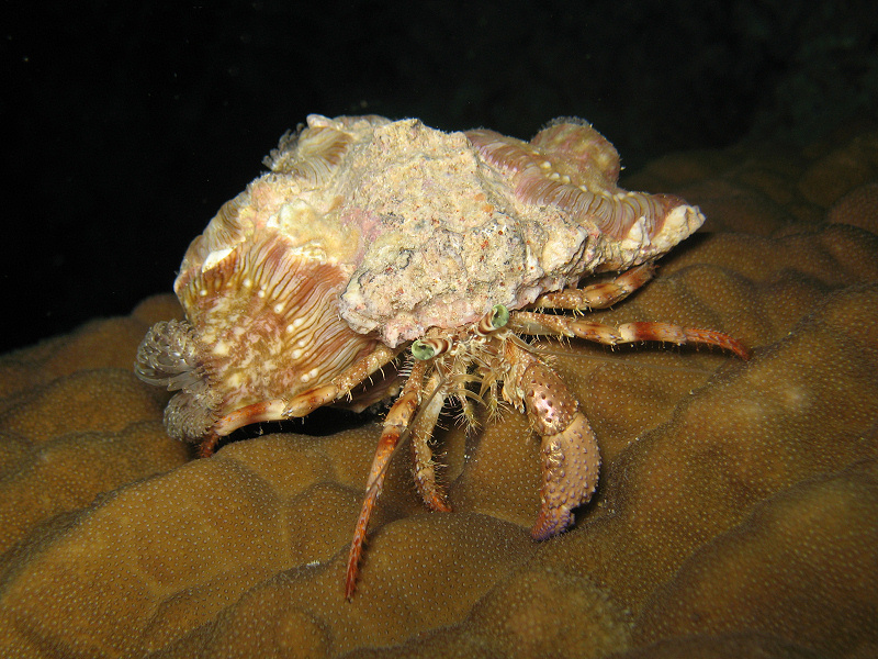 Dardanus pedunculatus on a coral - Hurghada, Red Sea, dec.2008